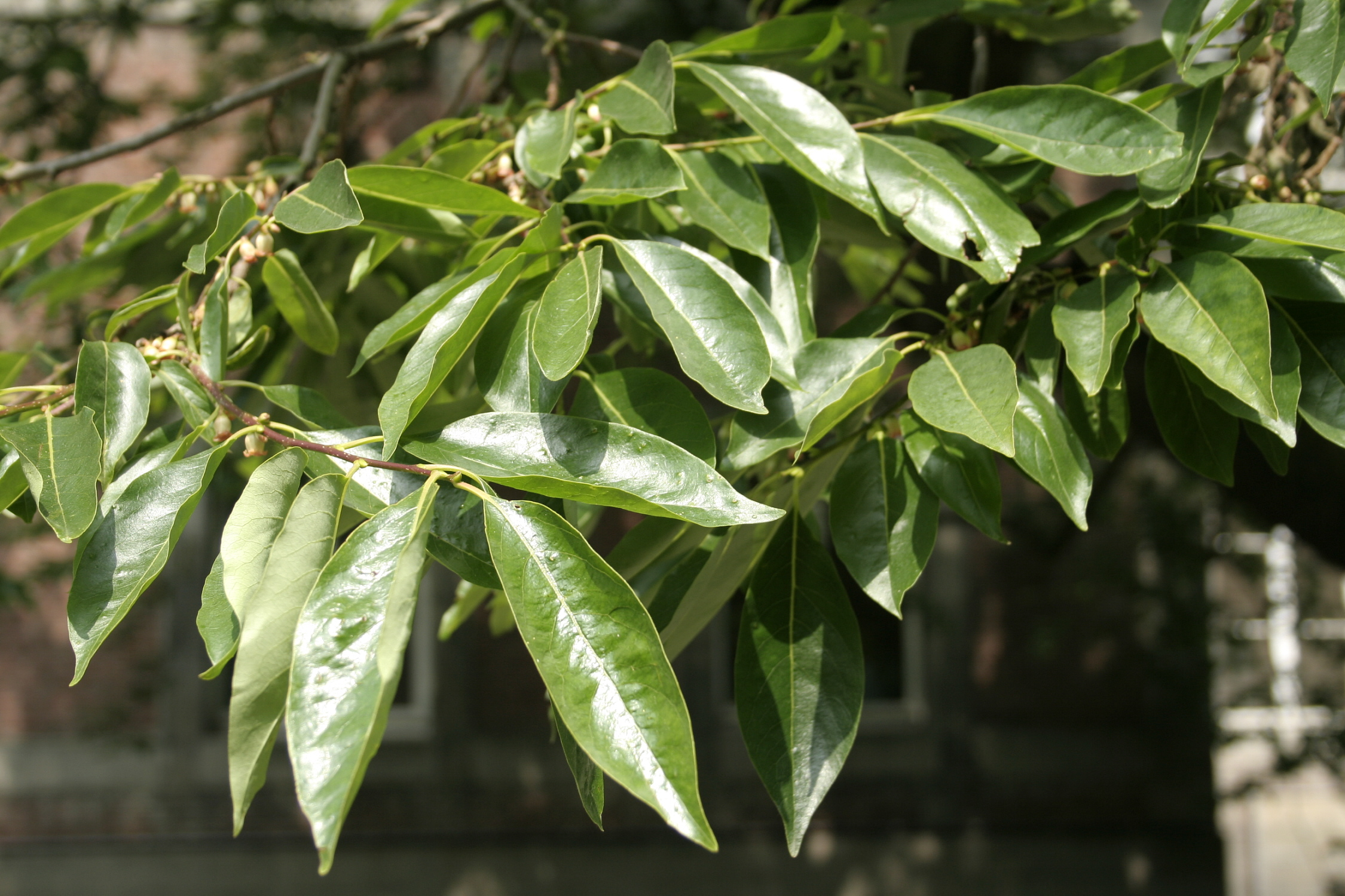 Date-plum Japaneese date-plum (Diospyros lotus).